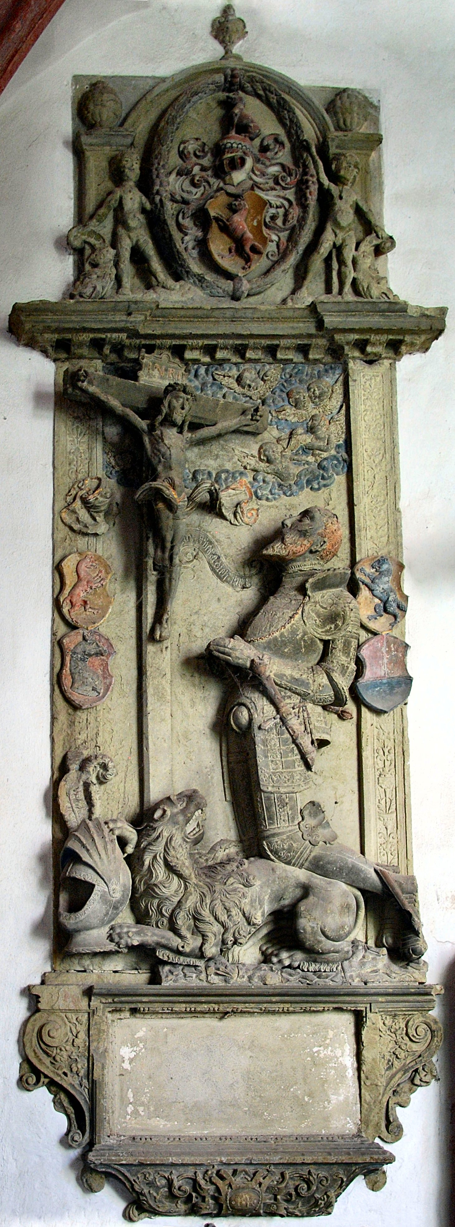 Jakob Fuchs von Wonfurt († 1558) St. Kilian's Cathedral (Würzburg)